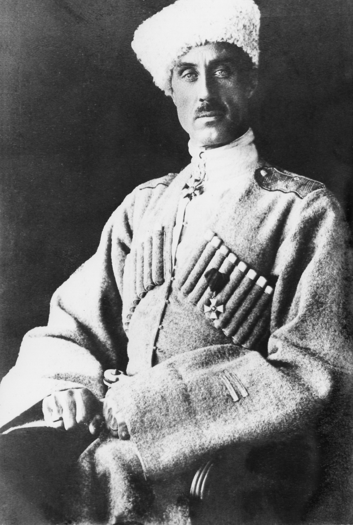 Wrangel Pyotr Nikolayevich